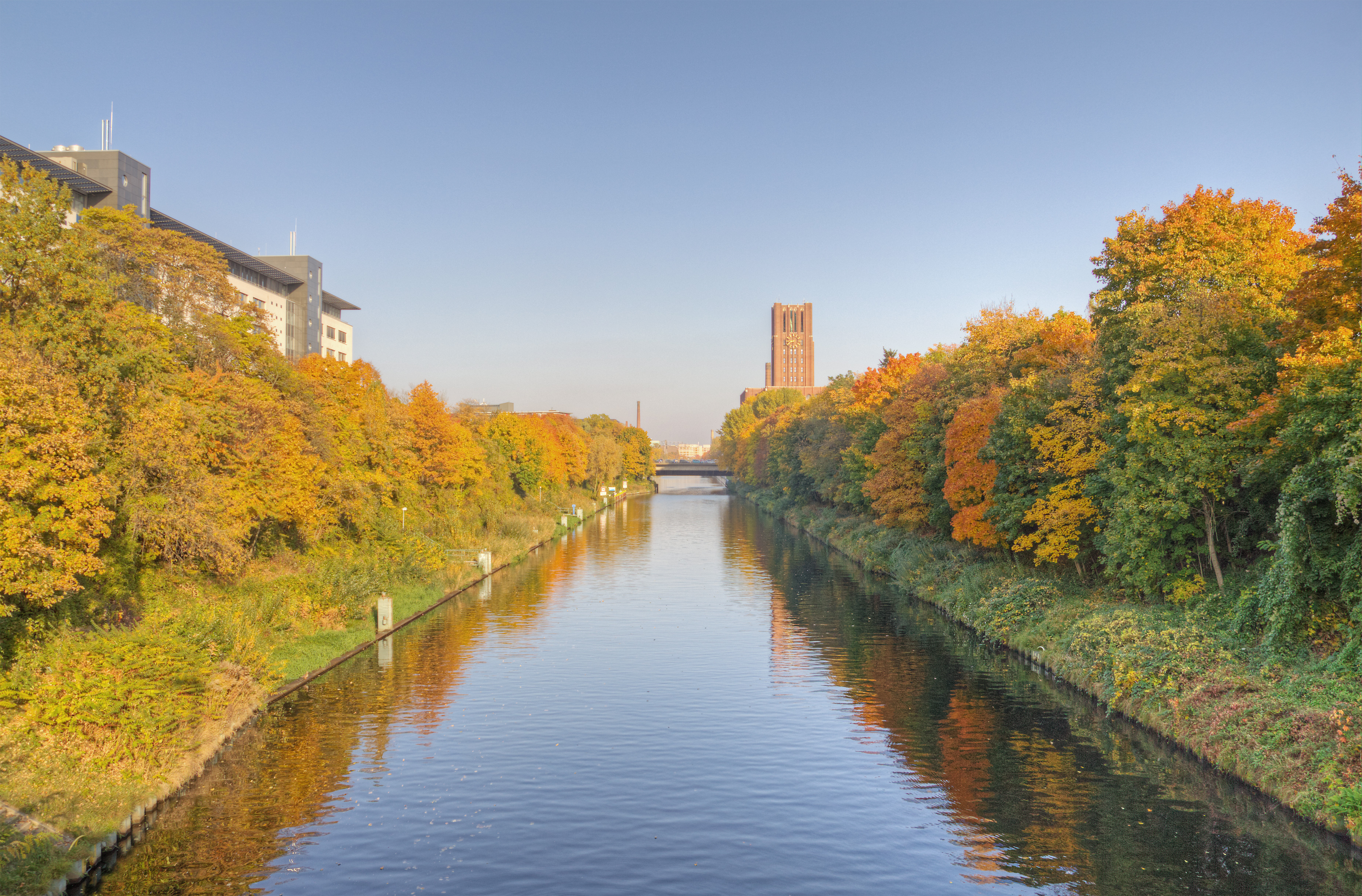 Berlin-Tempelhof. Teltow Canal during Indian summer. In the background, the clock tower of the Ullstein House is visible.